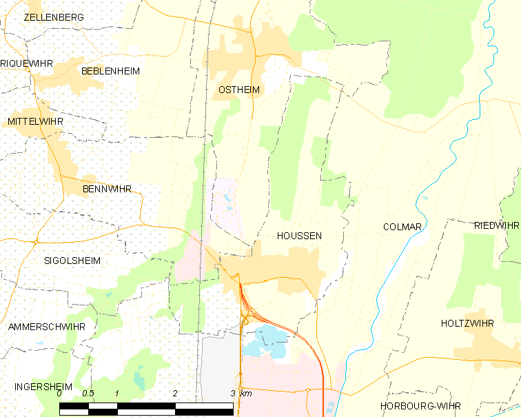 Map of French municipality